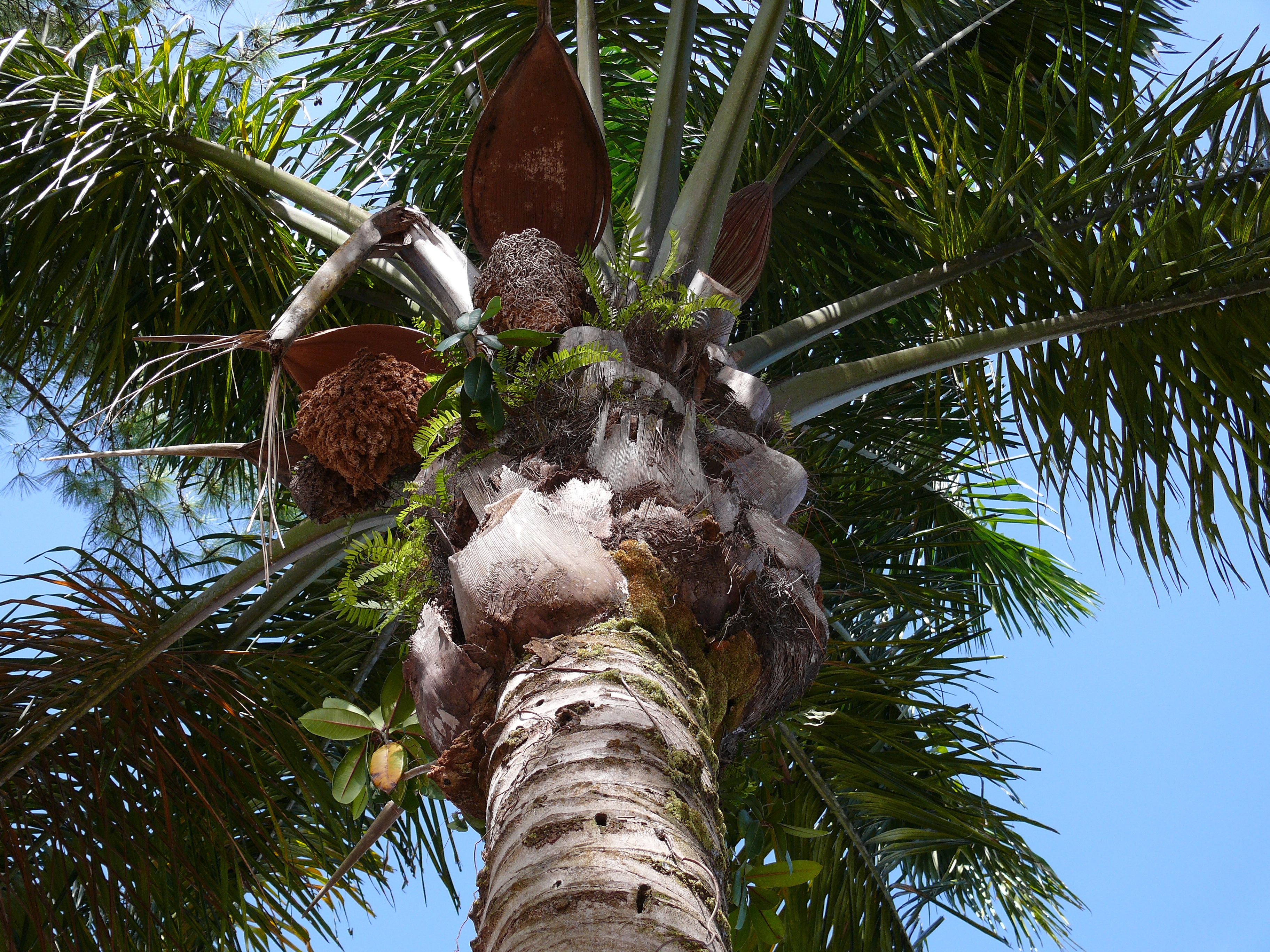 Attalea maripa in Kourou, French Guiana (Amazonia). Photo taken by Arria Belli on 27 October 2006. (Synonymy: Maximiliana maripa. Called "American oil palm" in English, maripa in French Guiana, and naj in a local language.)